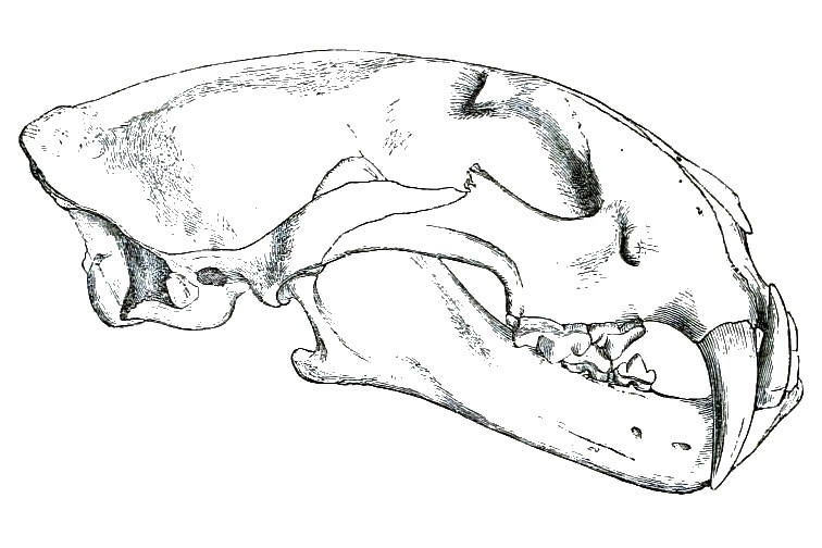 Clouded Leopard, skull from lateral